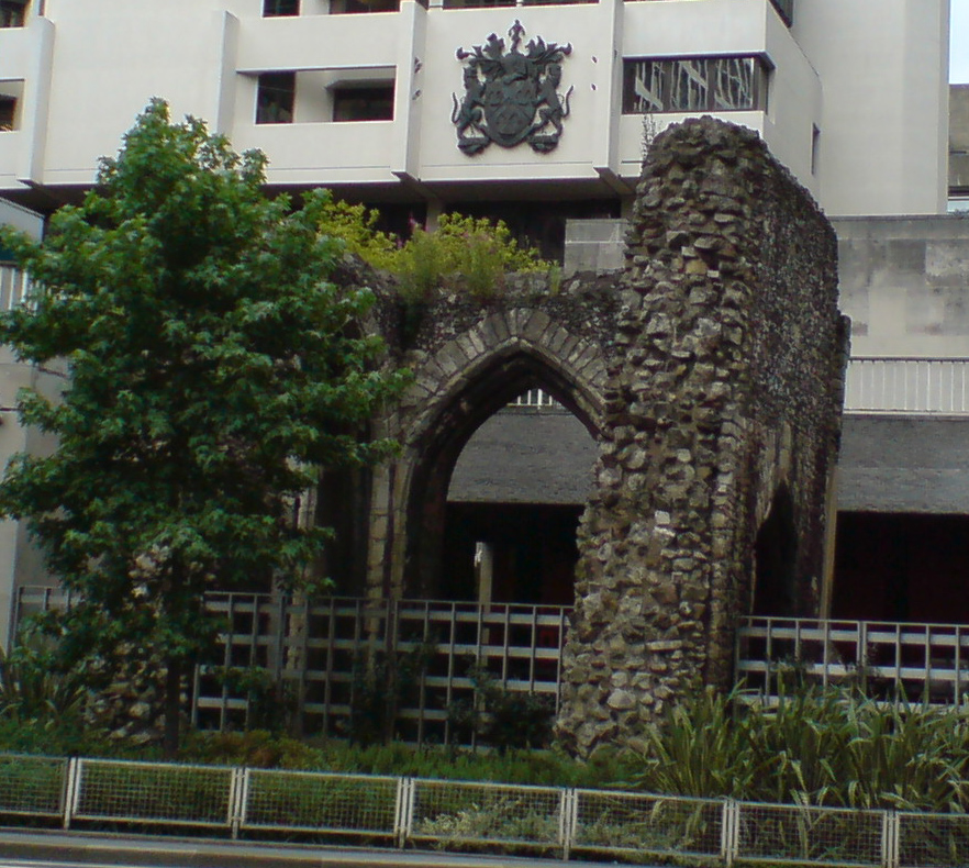 The ruins of St Alphage church in the City of London. Photo taken from London Wall (the road).